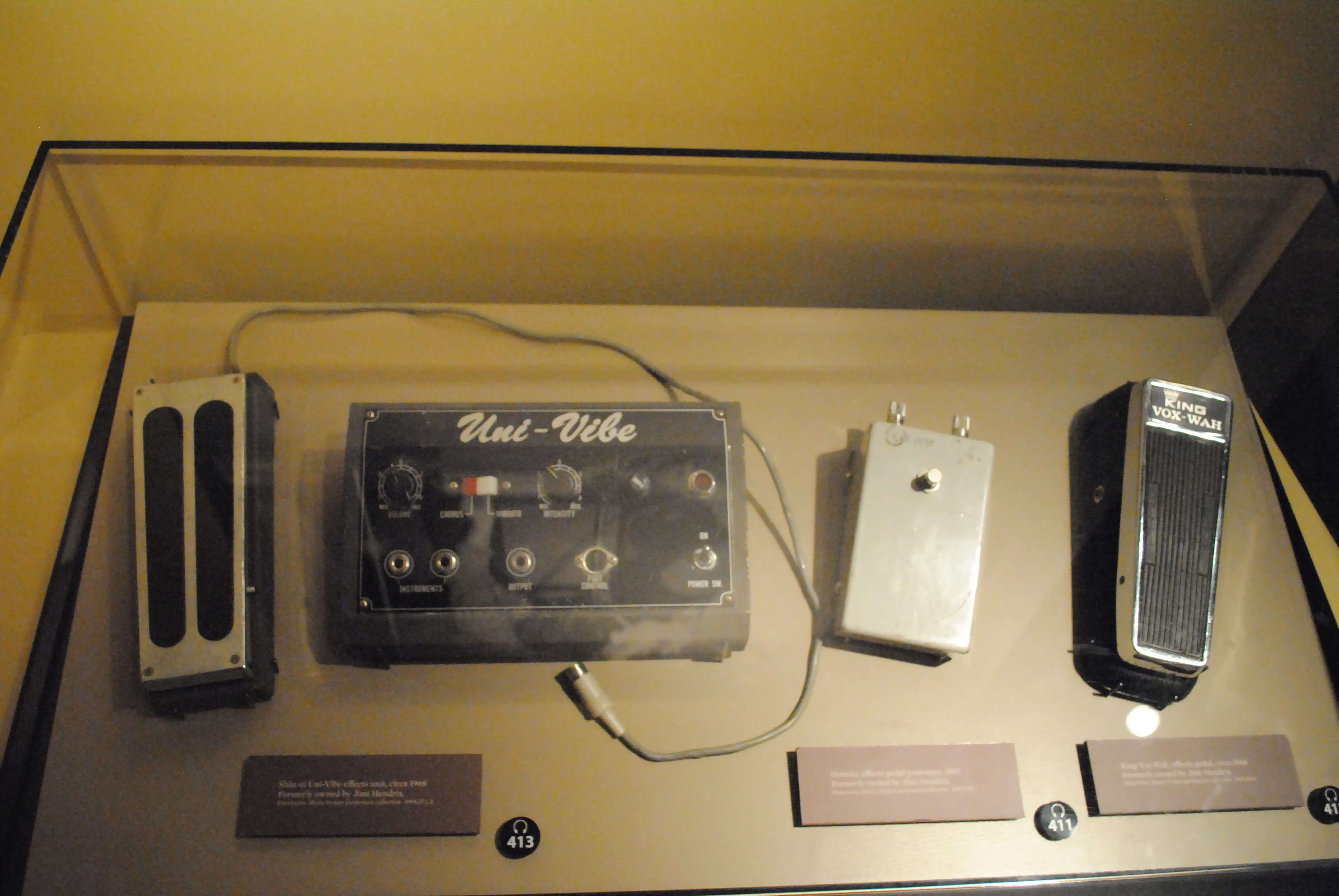 Experience Music Project/ Science Fiction Museum and Hall of Fame.